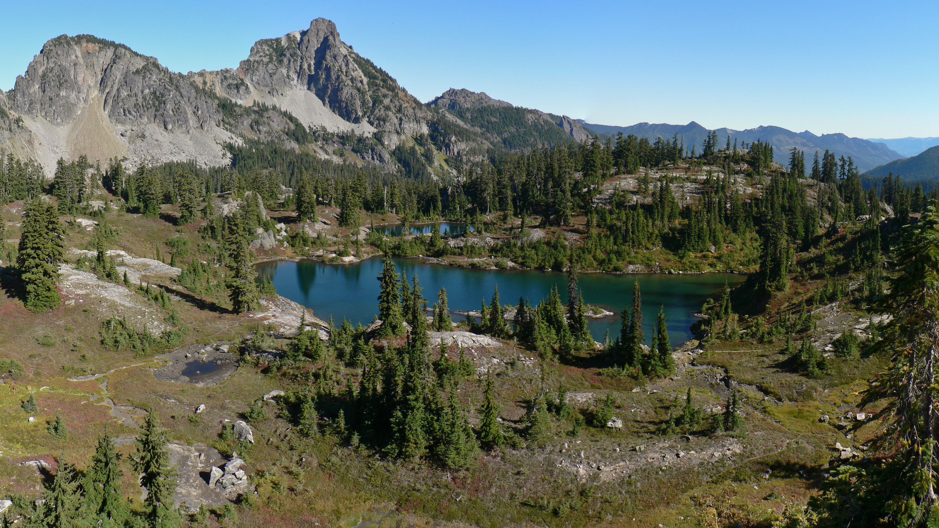 Lila Lake on Rampart Ridge, Hibox Mountain (6547 ft) on Box Ridge, Mountain Hemlock, Kachess Ridge (right skyline); stitched panorama of 525, 526 and 527